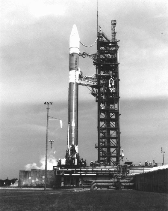 An Atlas II booster (AC-104) carrying a Defense Satellite Communications System Phase III satellite (DSCS IIIB-9), on the pad at Cape Canaveral